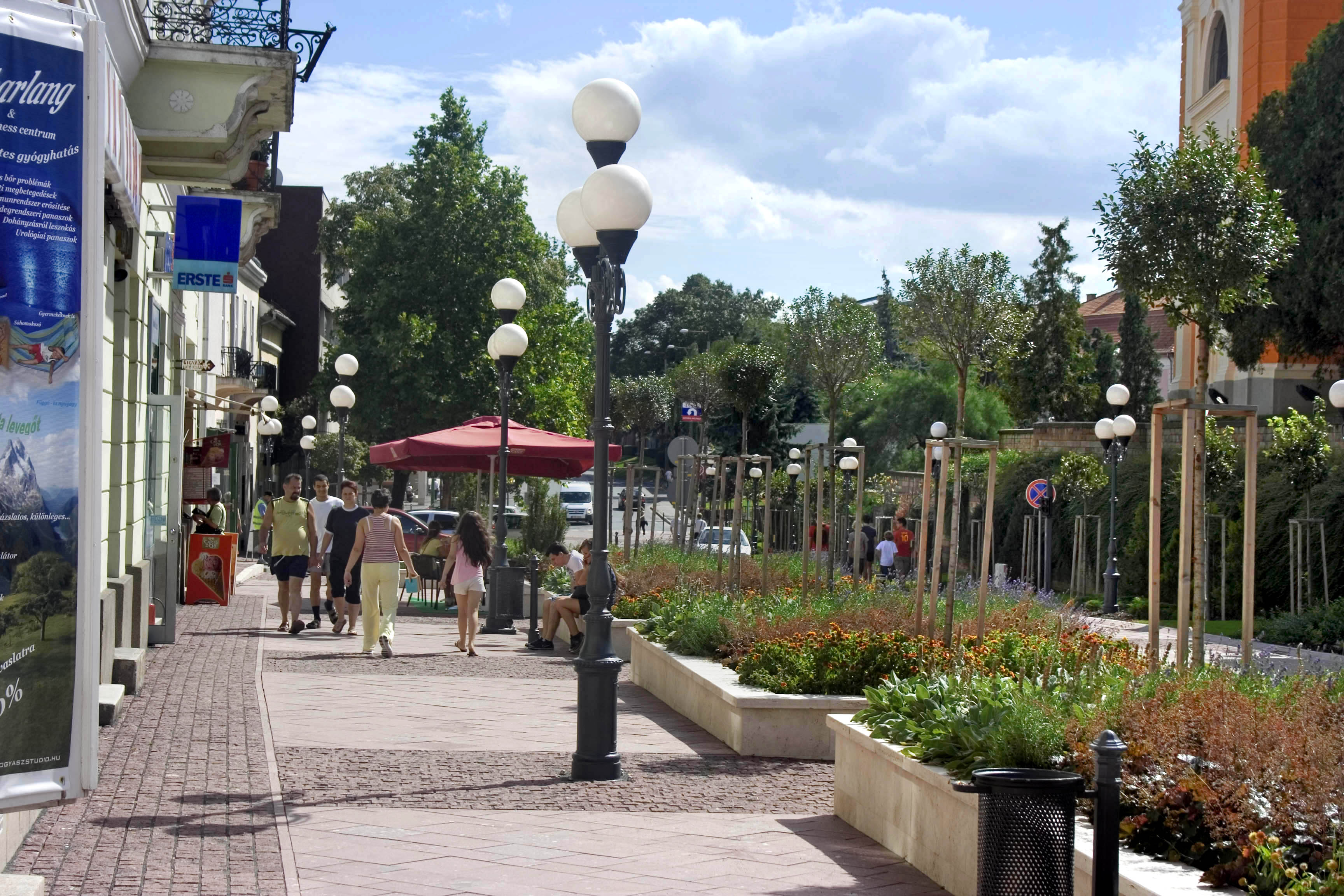 Sátoraljaújhely - A felújított városközpont, a Kossuth Lajos utca